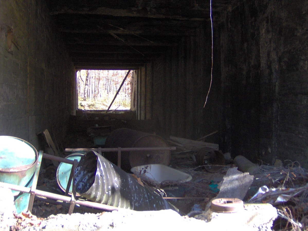 The ruins of the Ritter Lumber Company's sawmill at Hazel Creek in the Great Smoky Mountains of North Carolina, located in the Southeastern United States. The sawmill operated 1910-1928. Trees would be hauled by railroad from the forests higher up in the valley. They would be washed in a pond (now dry) adjacent to the mill before being sent through the band saw. These ruins are located about a half-mile east of Proctor.